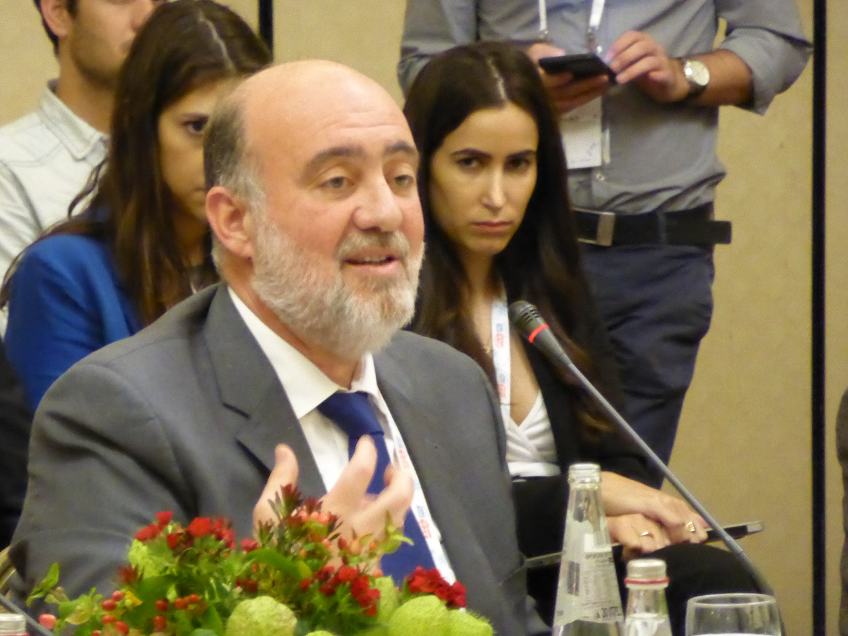 Ron Prosor in Tel Aviv, 28 December 2016.